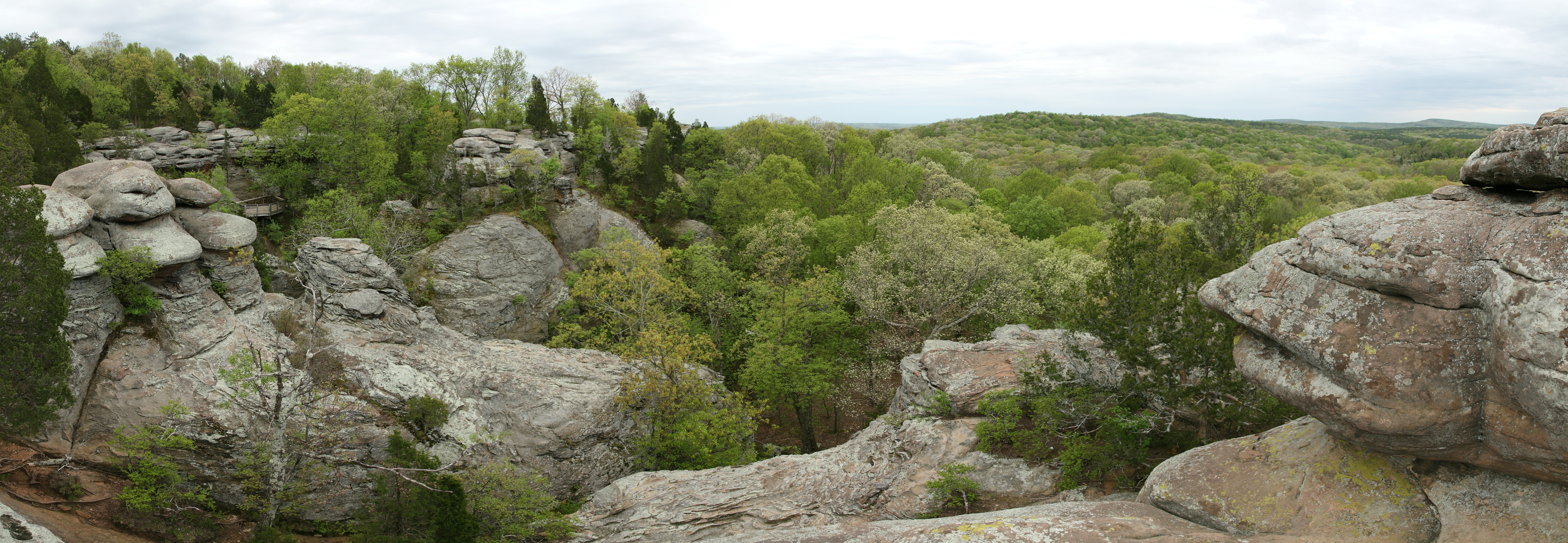 Garden of the gods, in Shawnee National Forrest, Illinois, USA This image was created with Hugin